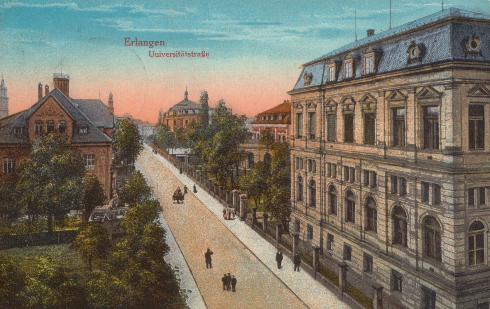 University Street in Erlangen